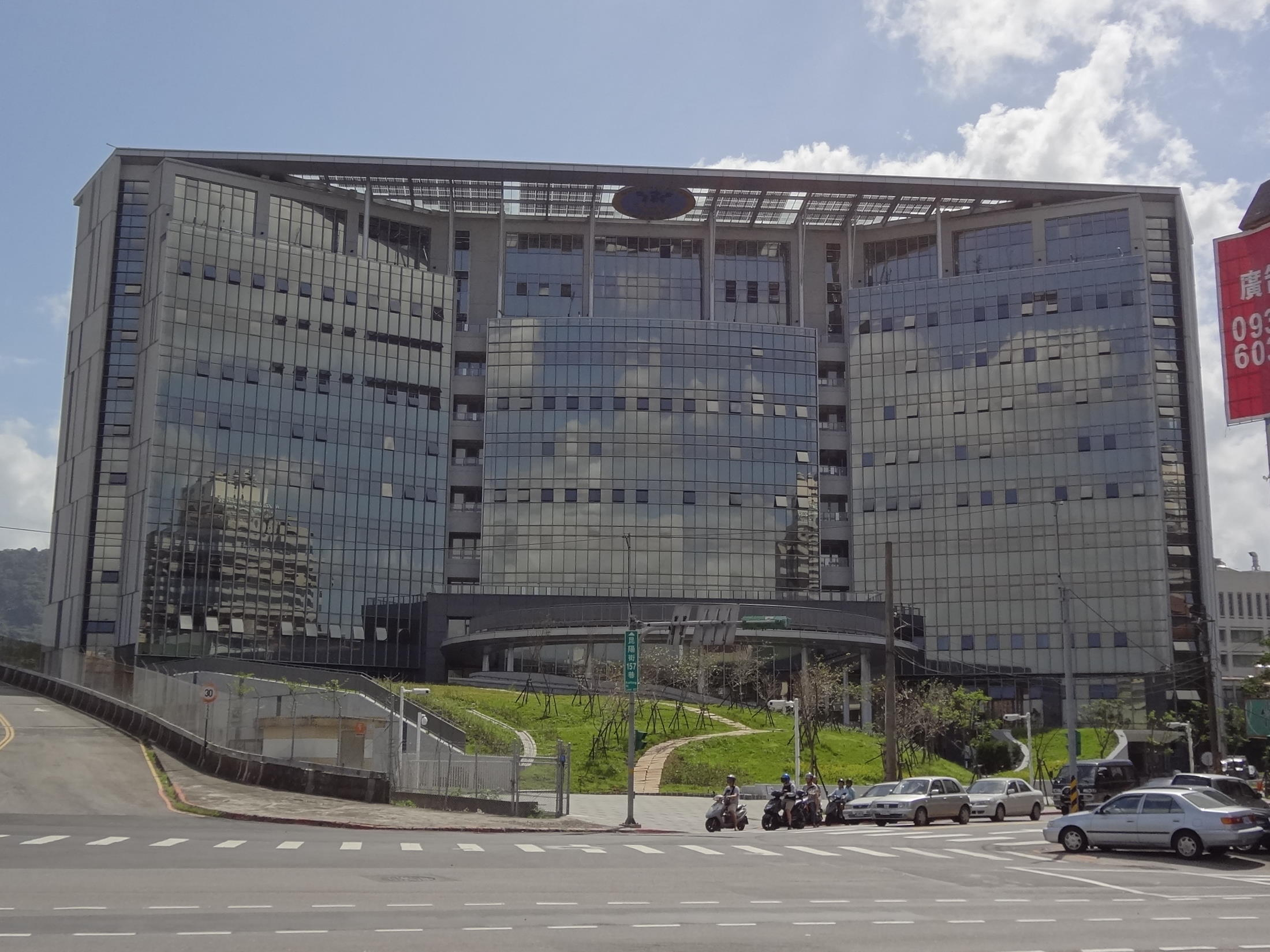 Ministry of Health and Welfare Building, Nangang District, Taipei City, Taiwan.